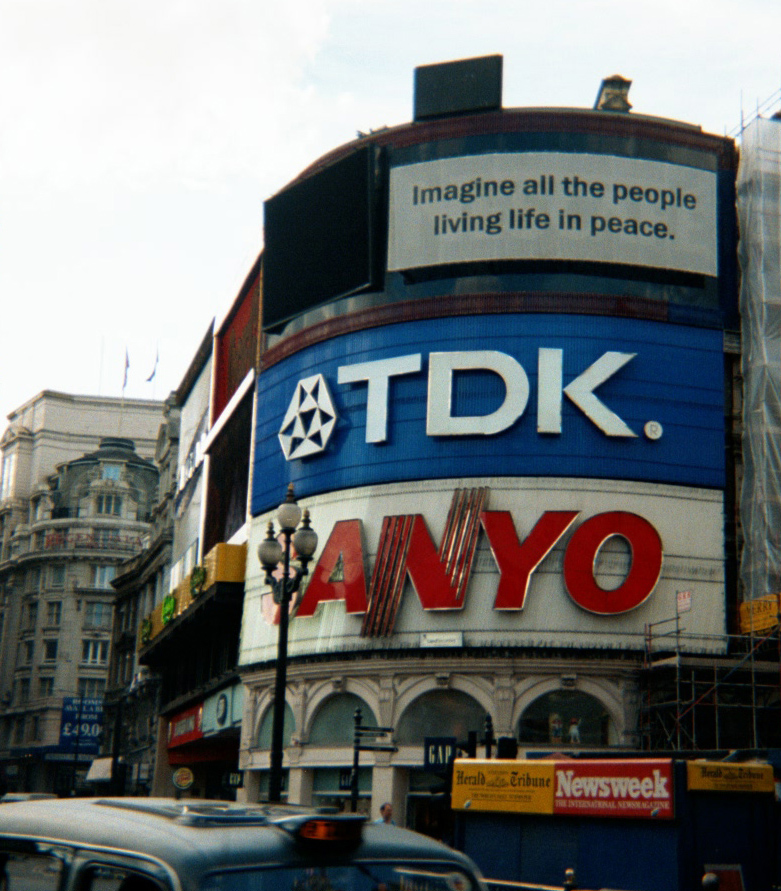 Photo of Piccadilly Circus advertising in June 2002. Mediocre quality, but some minor worth due to visibility of short-lived quote from John Lennon's "Imagine" visible at top.)